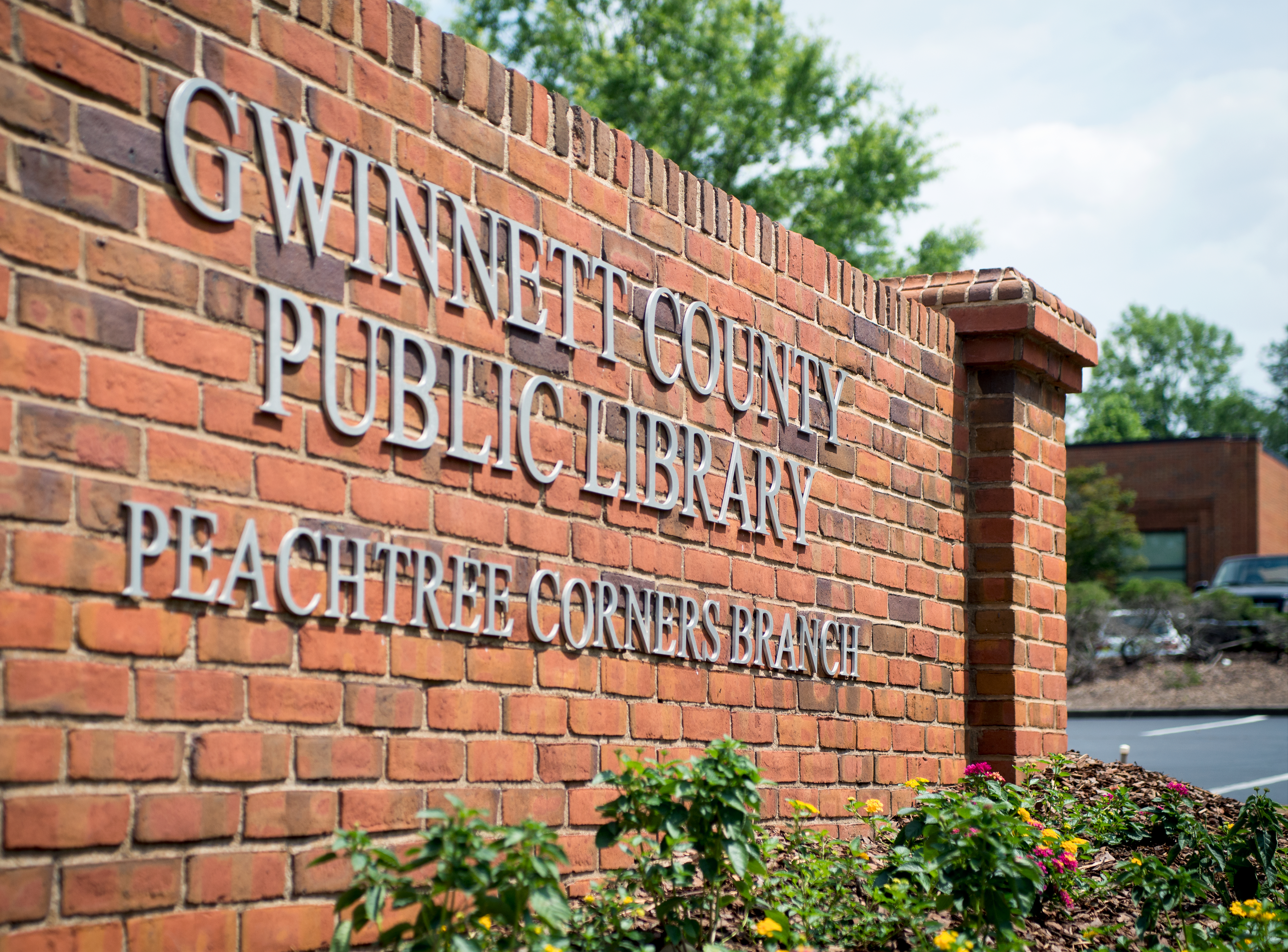 Gwinnett County Library - Peachtree Corners branch